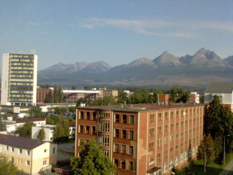 Svit (Slovakia)